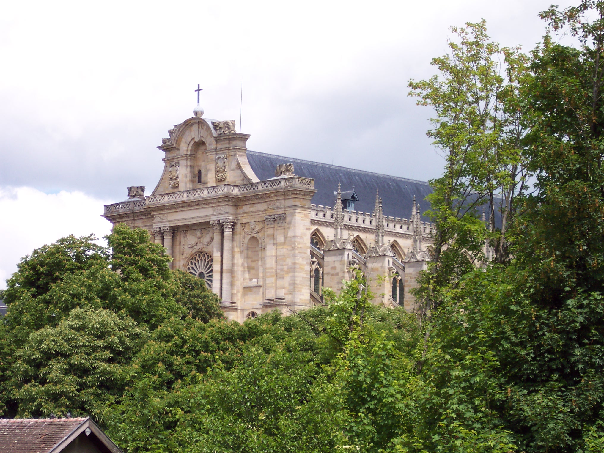 Façade of the cathedrale in Châlons-en-Champagne (Champagne-Ardenne, France)